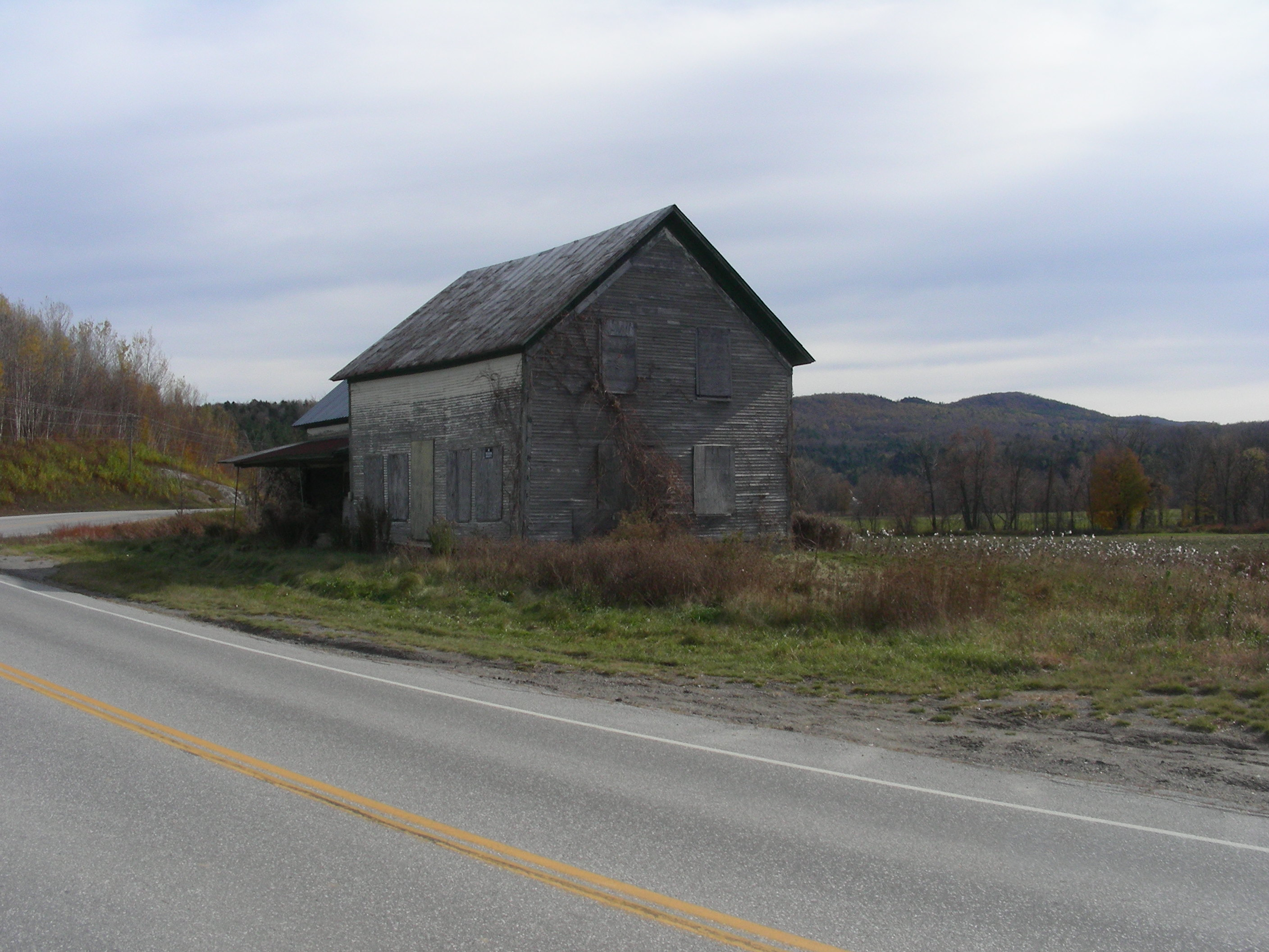 The Dutchburn farmhouse outside of Montgomery, Vermont where Brianna's Oldsmobile was found on March 20th 2004